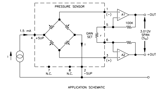 Application schematic for a piezoresistive silicon pressure sensor